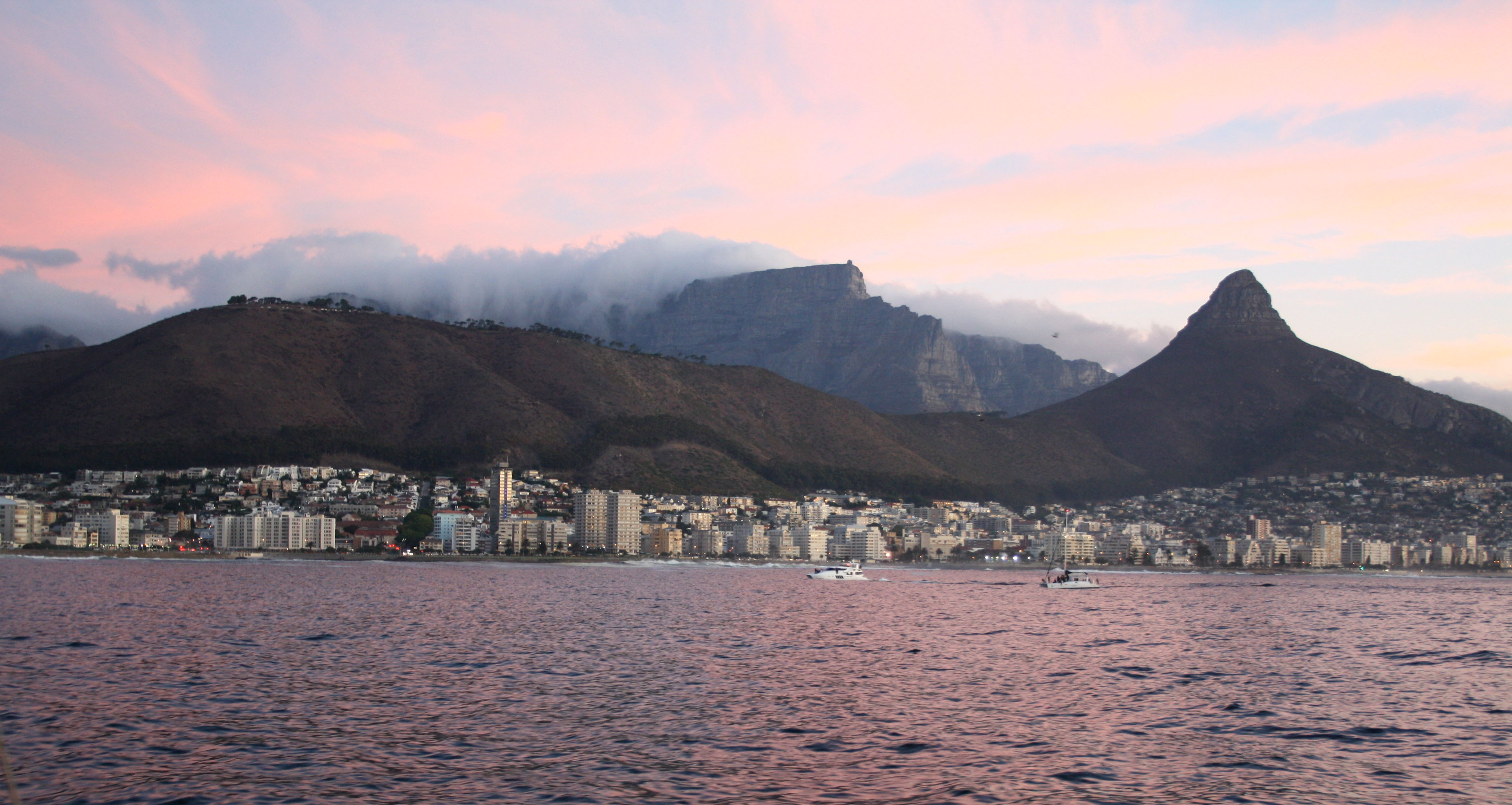 Cape Town – Signal Hill (left) and Lion's Head, as seen from Table Bay, against the backdrop of Table Mountain. March 2011. Photo by Winstonza talk